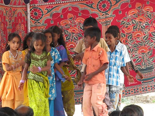 At a village event commemorating the launch of a donor project, local children performed traditional dances to the villagers and our visiting staff. They were great, from small and fun to older and more refined. These little ones were fantastic as they waved and danced around with the typical lack of timing. So cute!